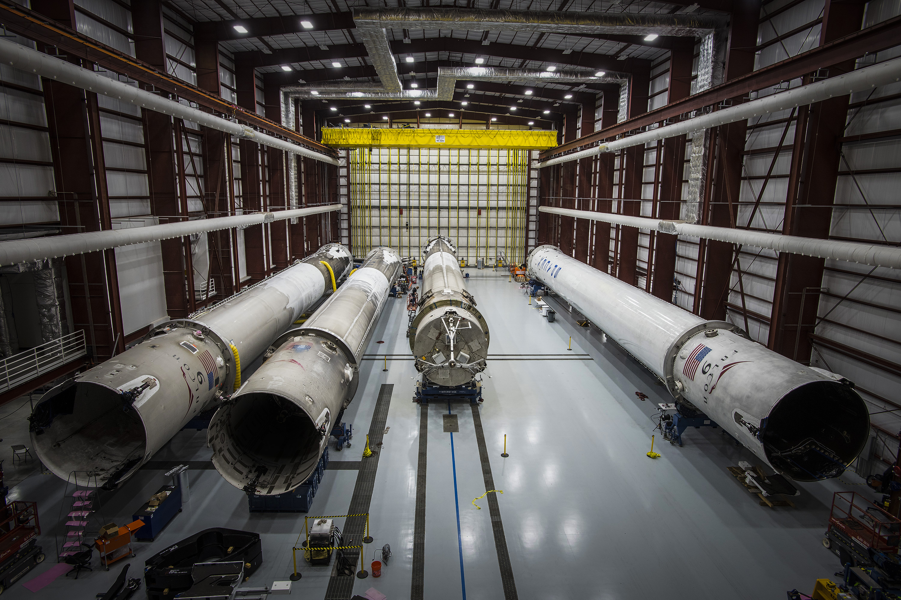 Landed rockets in hangar 39A